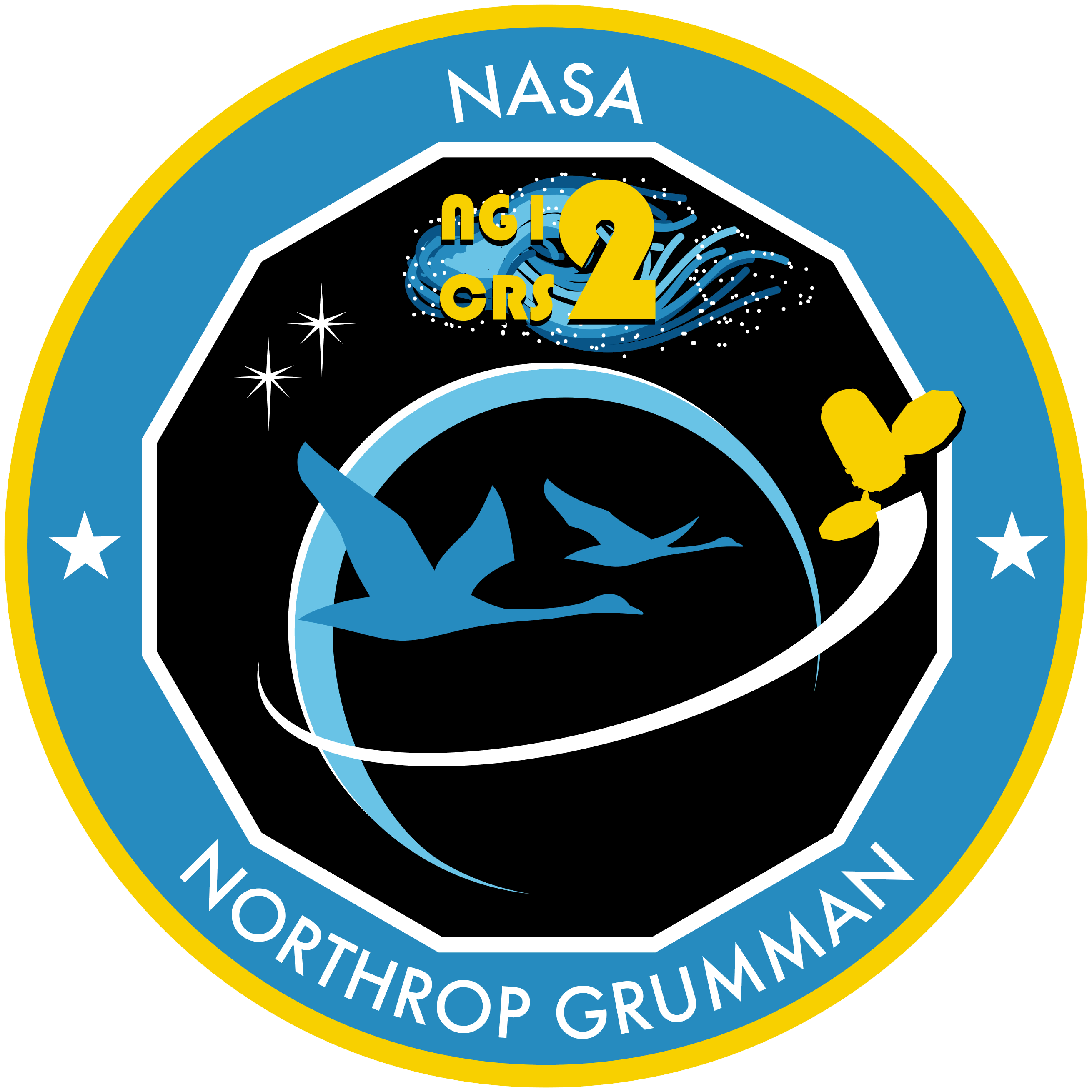 NASA logo for Northrop Grumman's NG-12 Cygnus, the first Commercial Resupply Services (CRS)-2 mission